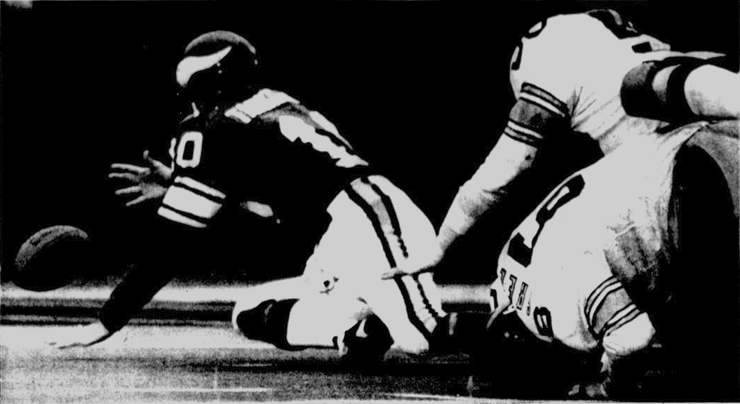 Vikings QB Fran Tarkenton scrambles into end zone to recover a fumble